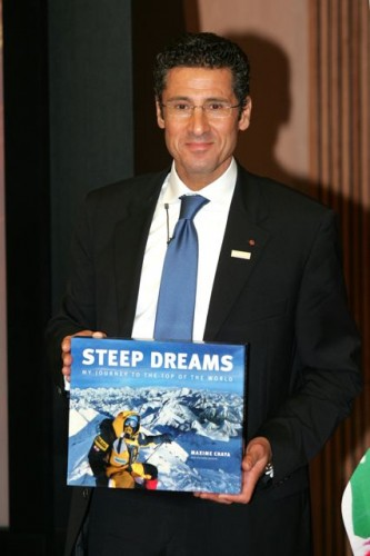 Maxime Chaya's Book "Steep Dreams: My journey to the Top of the World"